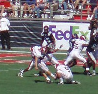 University of Alabama placekicker Leigh Tiffin kicks a point-after touchdown versus University of Mississippi.